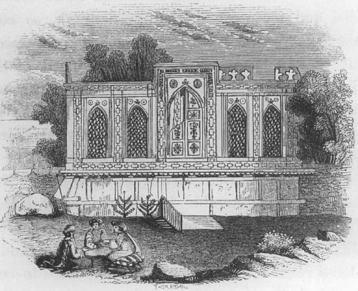 Tomb of Babur, near Kabul